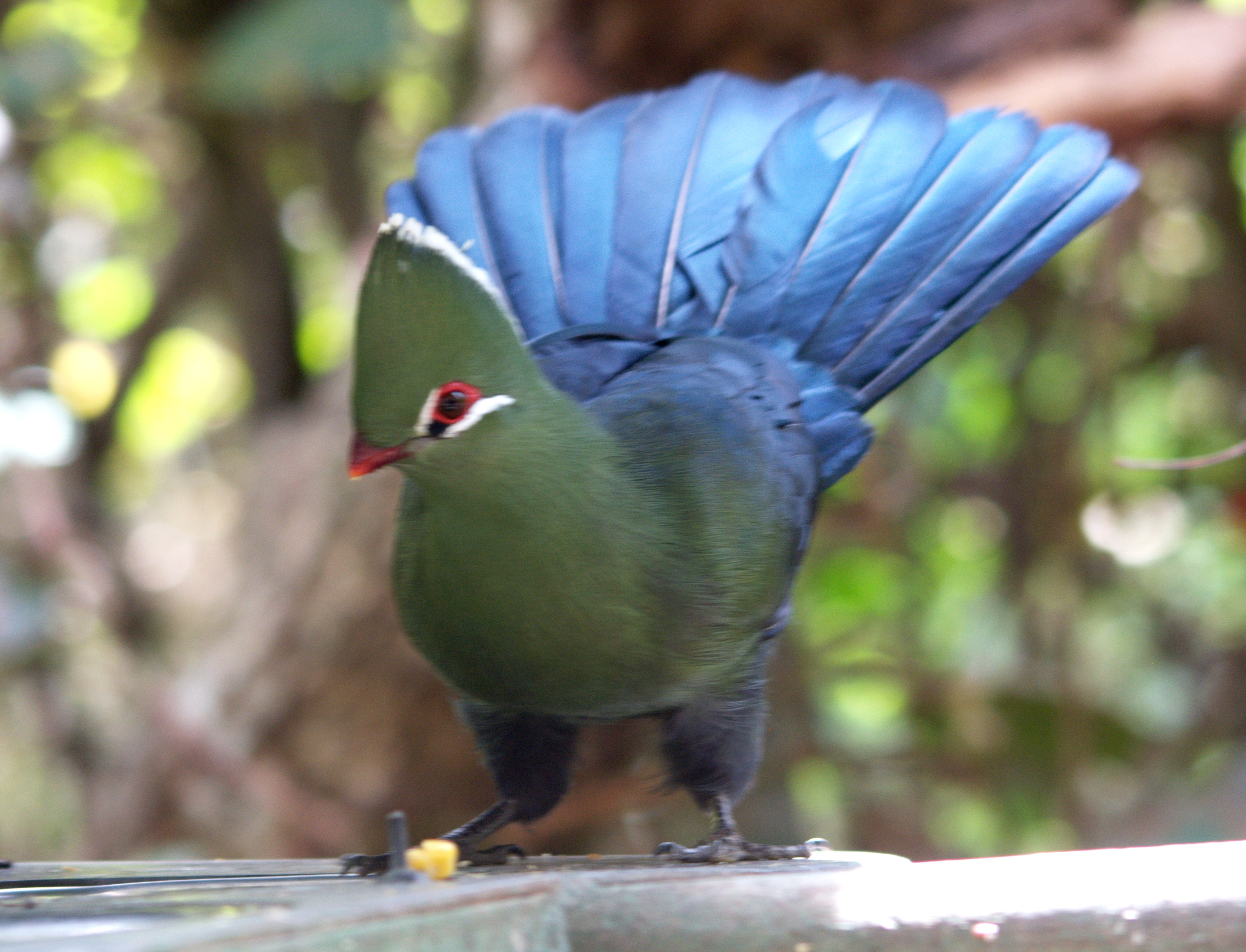 A Knysna Turaco at Birds of Eden, The Crags, Western Cape